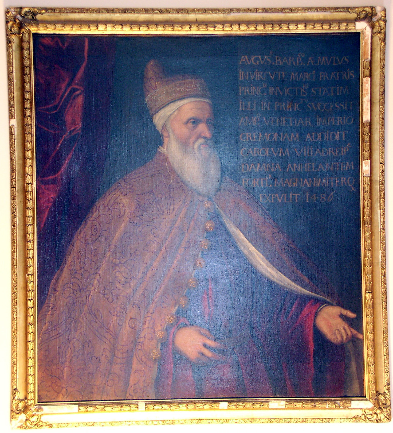 Painting of Agostino Barbarigo. Made the picture myself.